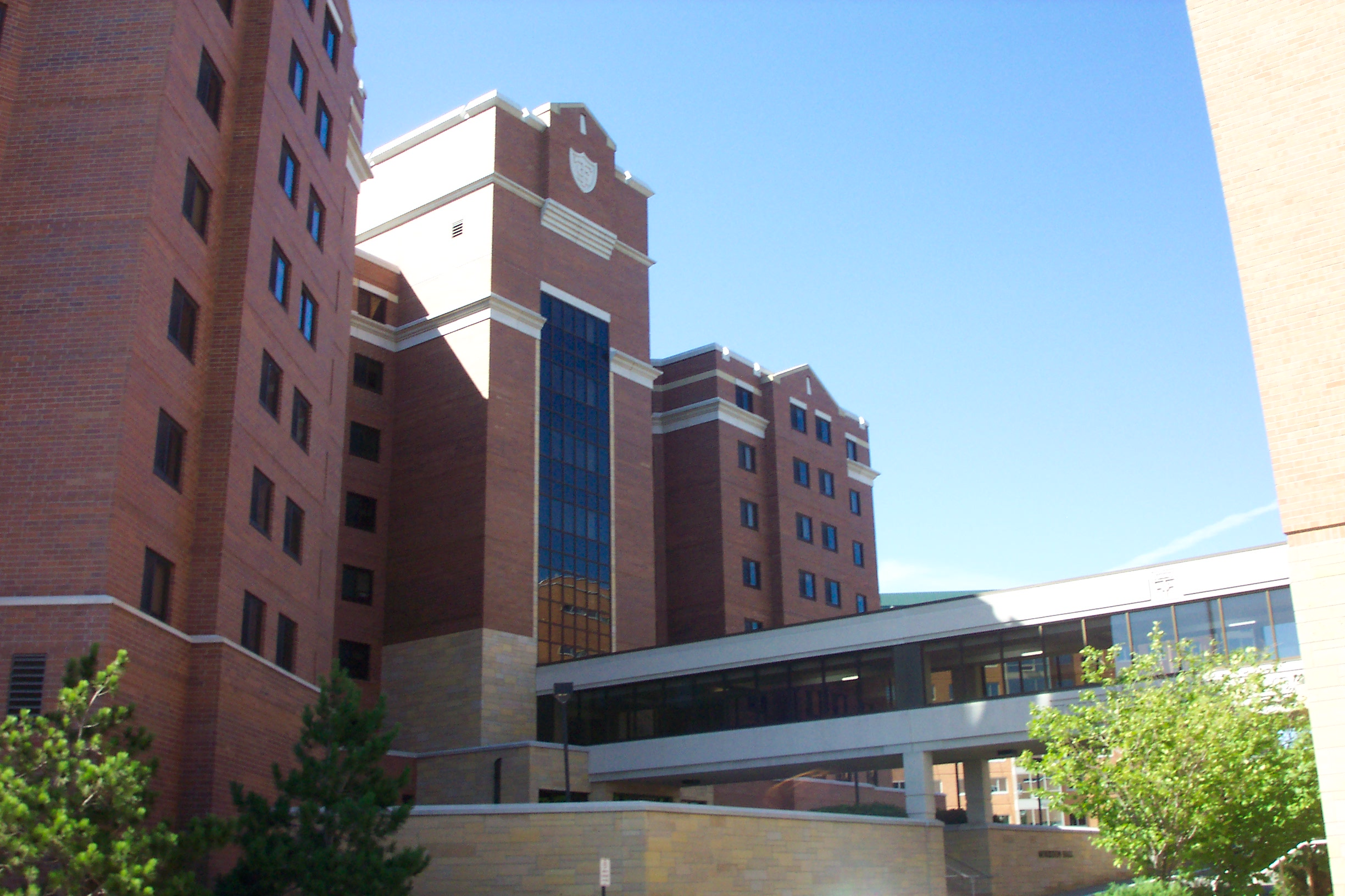 Morrison Hall, connected to Koch Hall by a skyway, at the University of St. Thomas's campus in Saint Paul, Minnesota